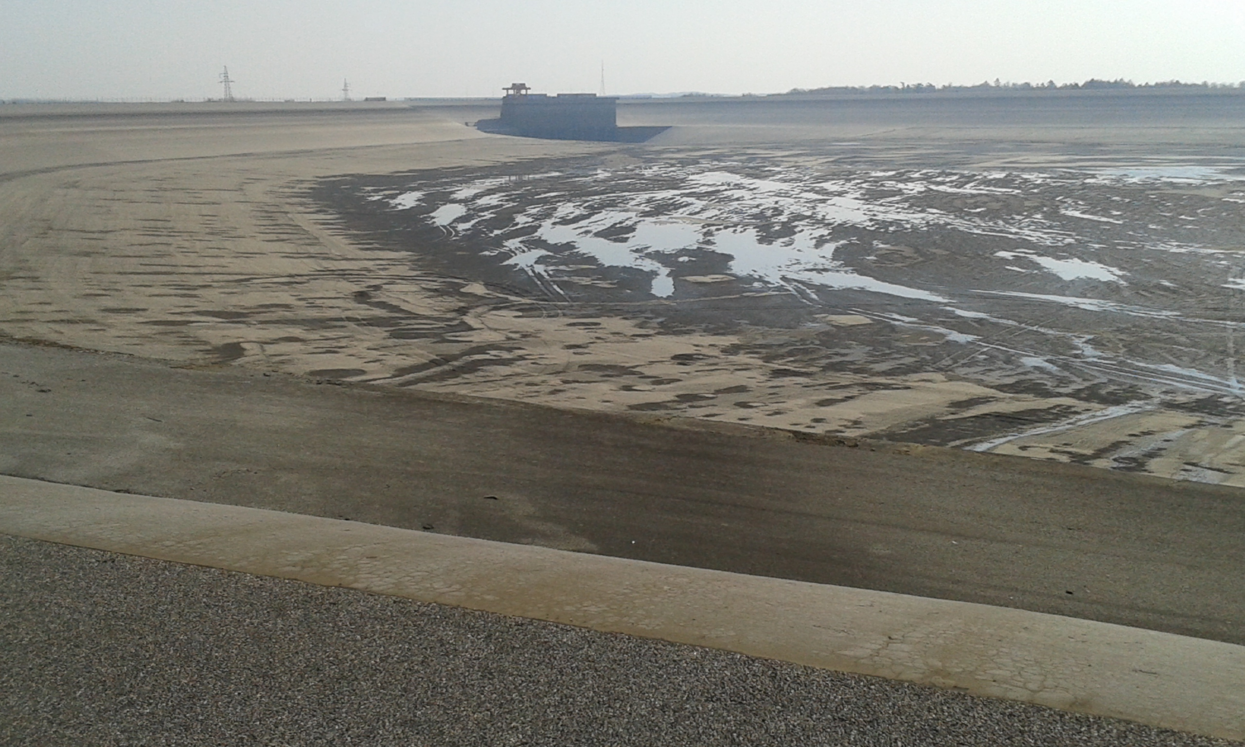 Żarnowiec Pumped Storage Power Station, Czymanowo, Poland. Reservoir is empty.